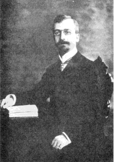 Photograph of Élie Cartan taken in 1904